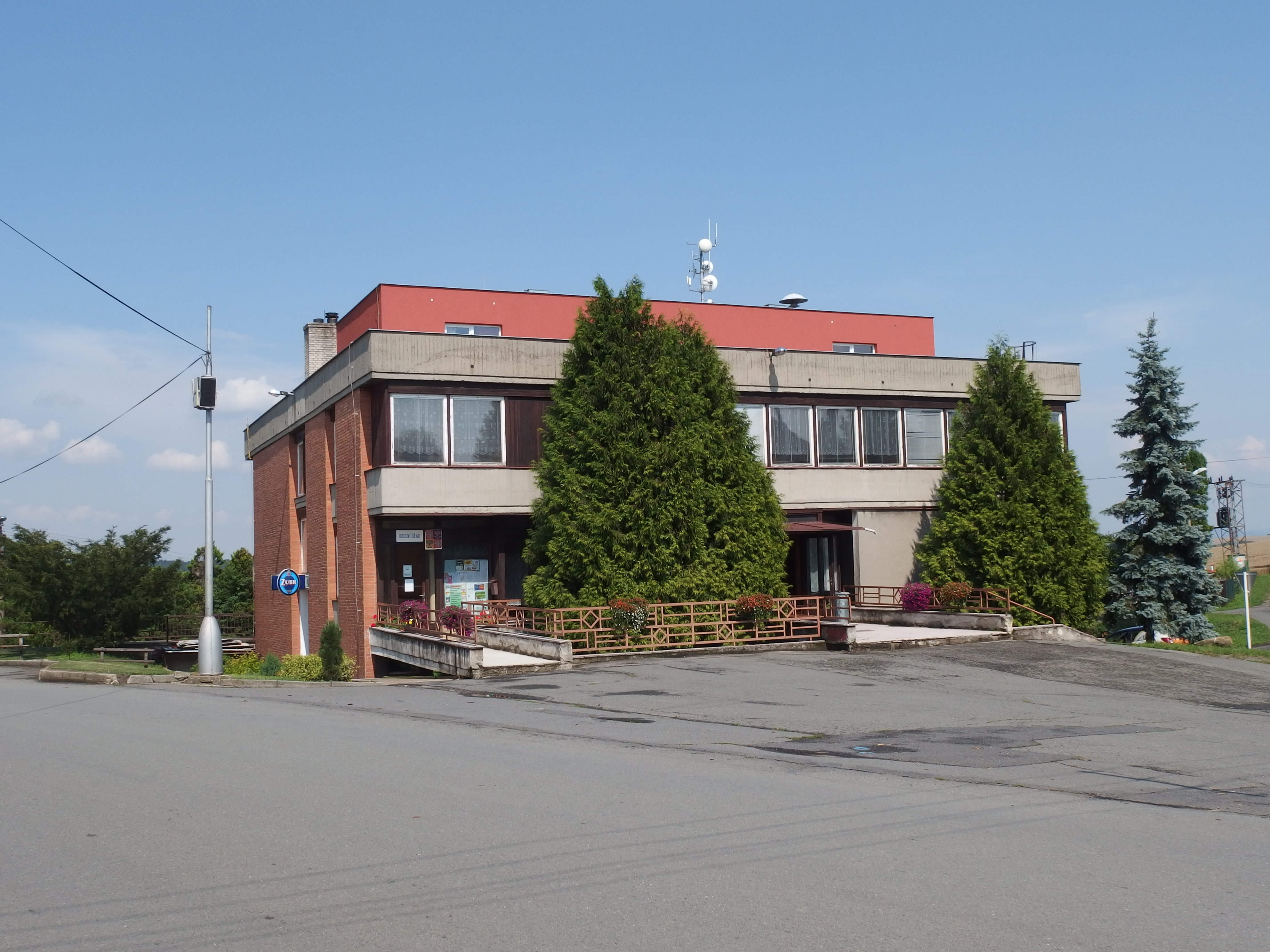 Rakov, Přerov District, Czech Republic.